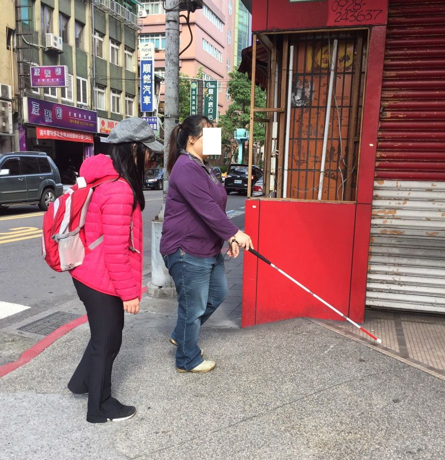 A O&M instructor is teaching a blind to use a white cane